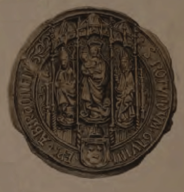 Seal of Gavin Dunbar, bishop of Aberdeen ( 1518/9–32)